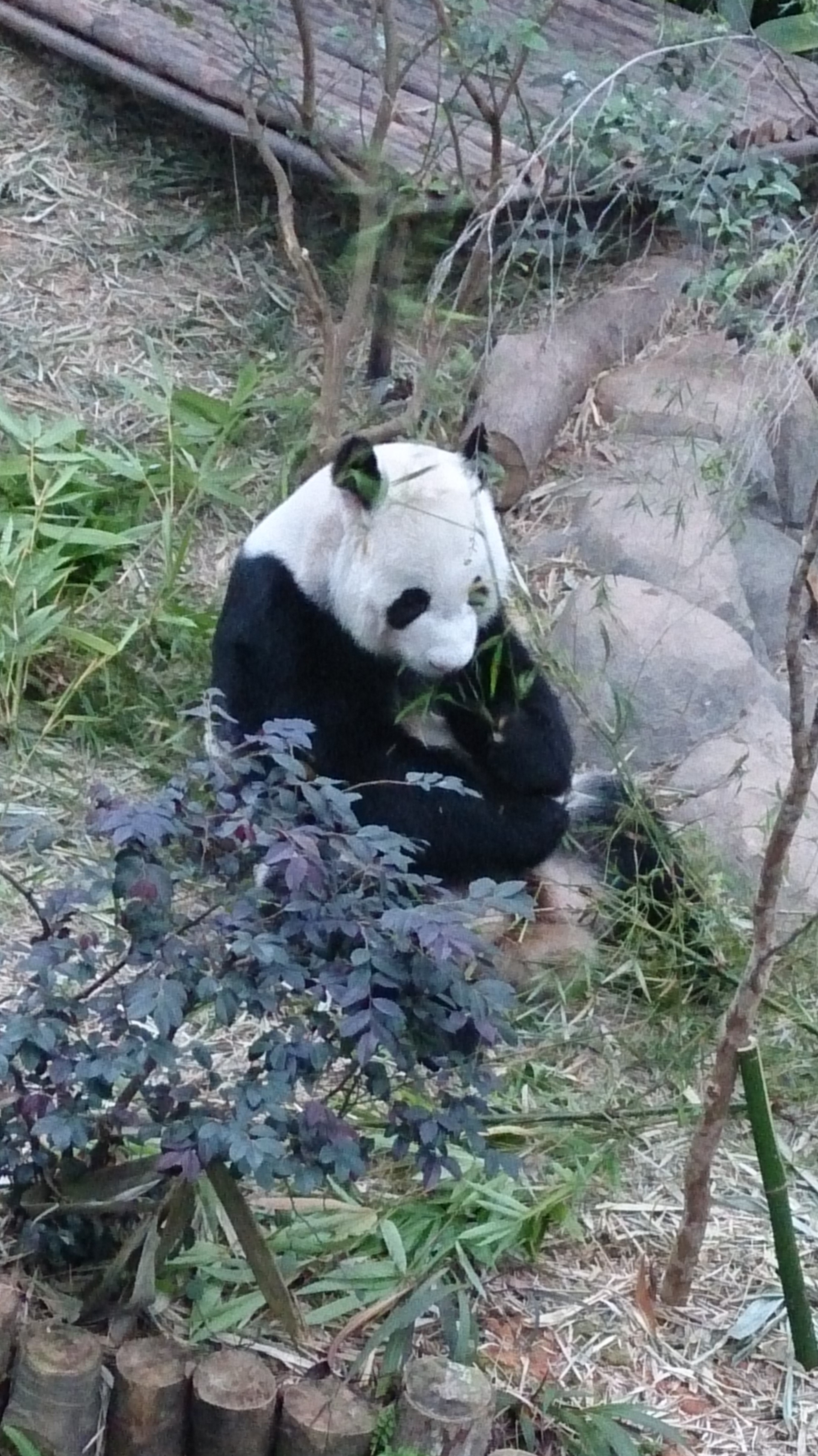 Giant panda "Kai Kai" at the River Safari, Singapore